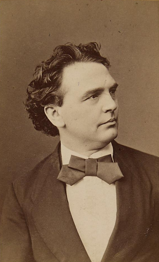 Austrian actor Louis Martinius, civil portrait, photograph by Fritz Luckhardt (1843-1894)